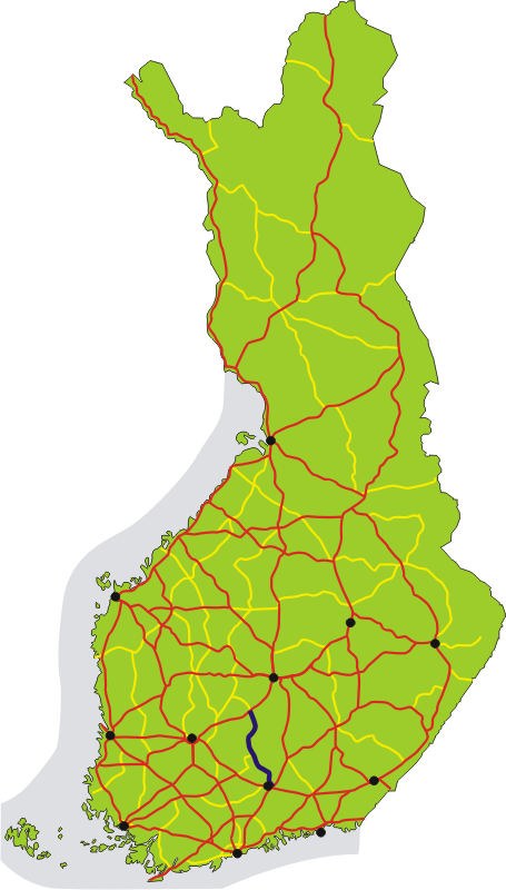 Map of the main road (highway) 24 in Finland, shown in dark blue. The other 1st class main roads (numbers 1–29) are red, 2nd class main roads (numbers 40–98) yellow. Black dots show the 12 biggest urban areas.